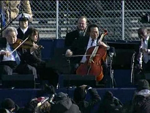 Itzhak Perlman (violin), Gabriela Montero (piano), Yo-Yo Ma (cello), and Anthony McGill (clarinet) performing John Williams' "Air and Simple Gifts" at the 2009 inauguration ceremonies for US president Barack Obama.